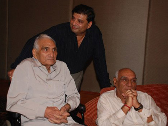 Baldev Raj Chopra and Yash Chopra in the music release of Naya Daur